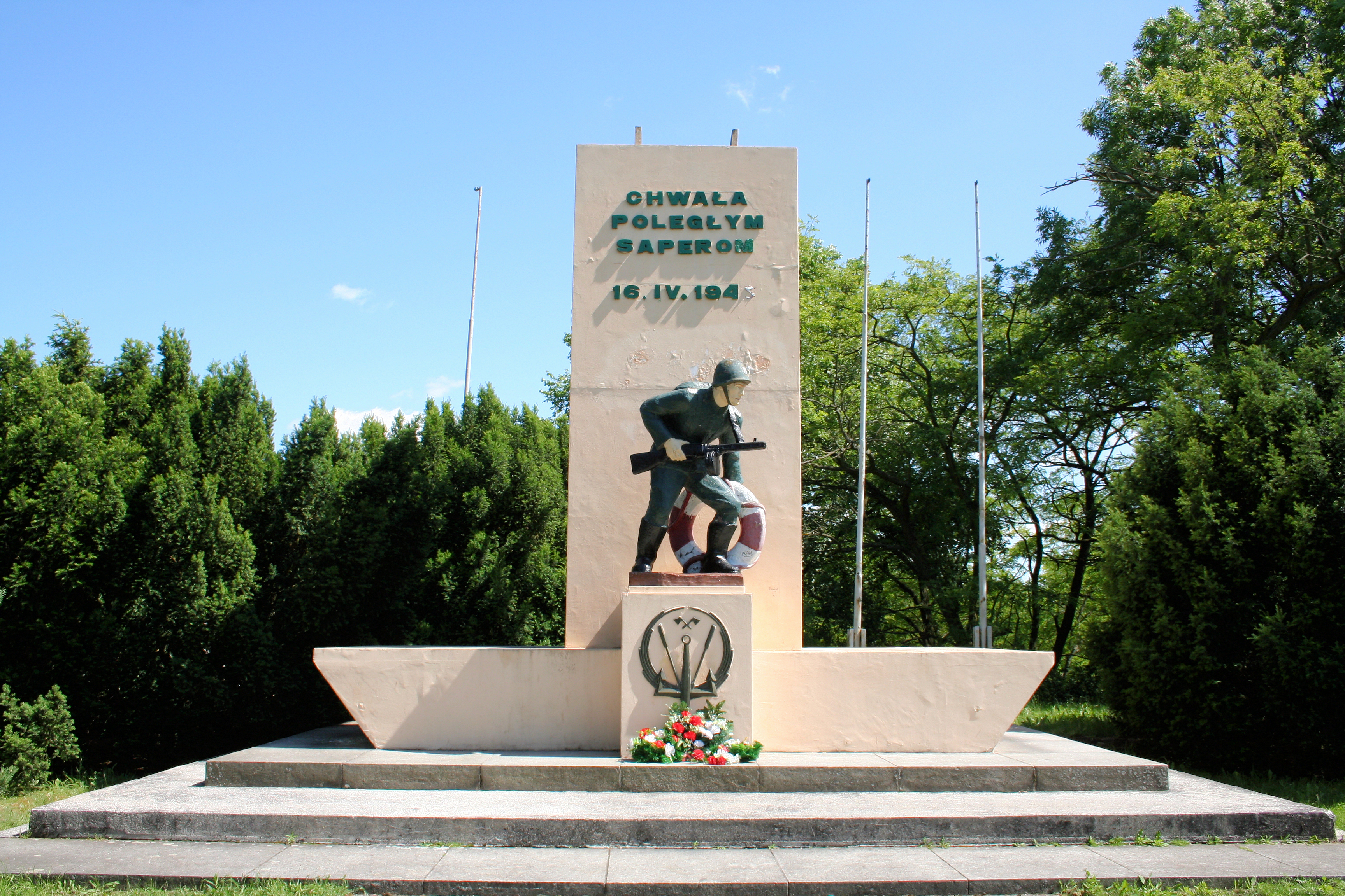 Sapper monument in Gozdowice